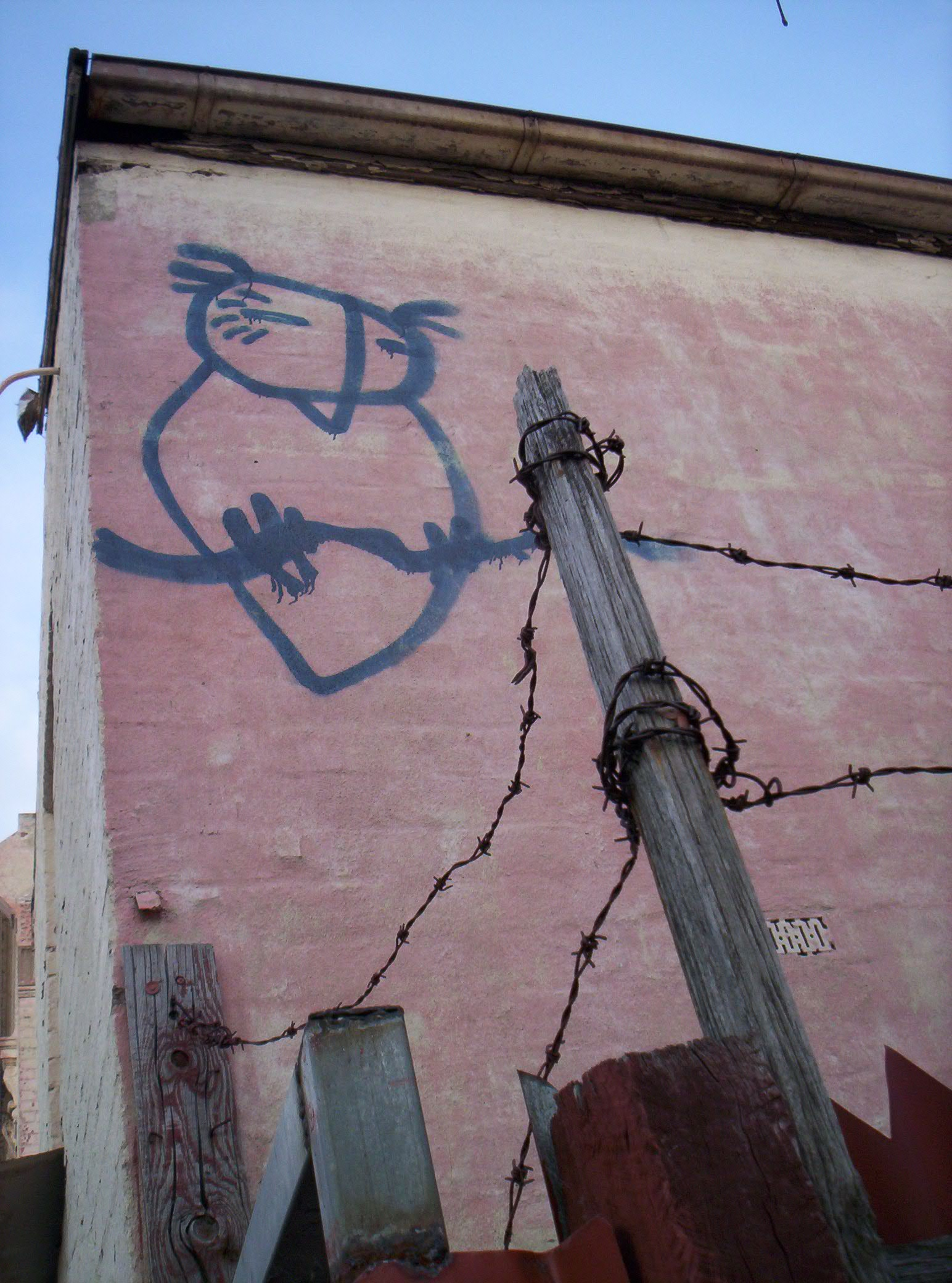 Street Art - Melbourne, Fitzroy. August 2005 photo by elliot k